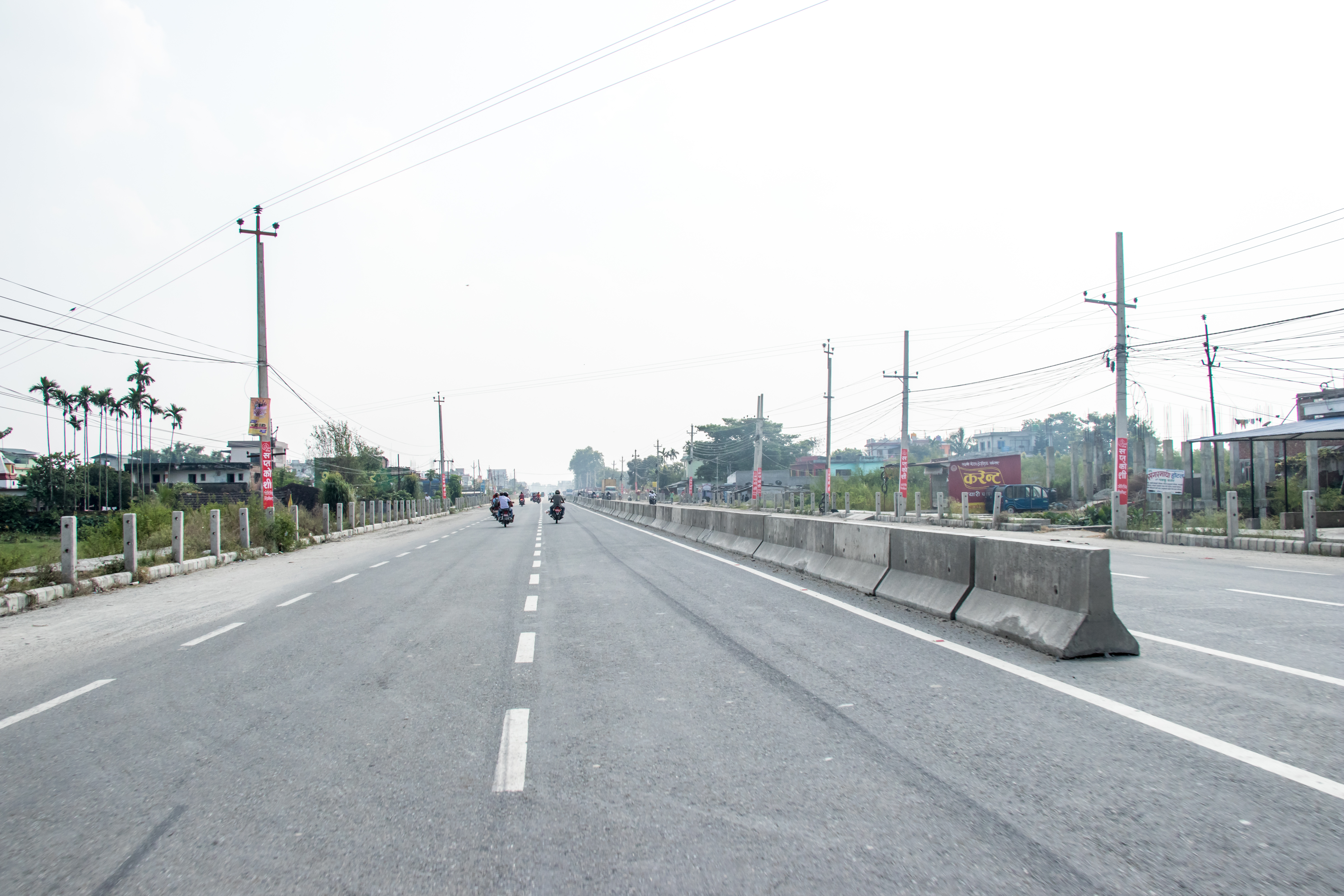 Biratnagar is a metropolitan city and the interim capital of the Province No. 1 of Nepal. It is currently the second most densely populated and the fourth most populous city of Nepal, with a population of 240,000.